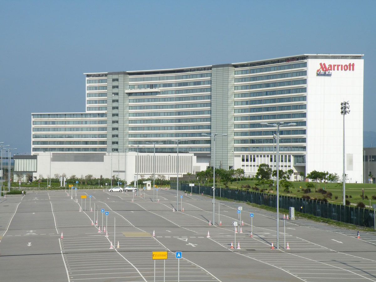 SkyCity Marriott Hong Kong